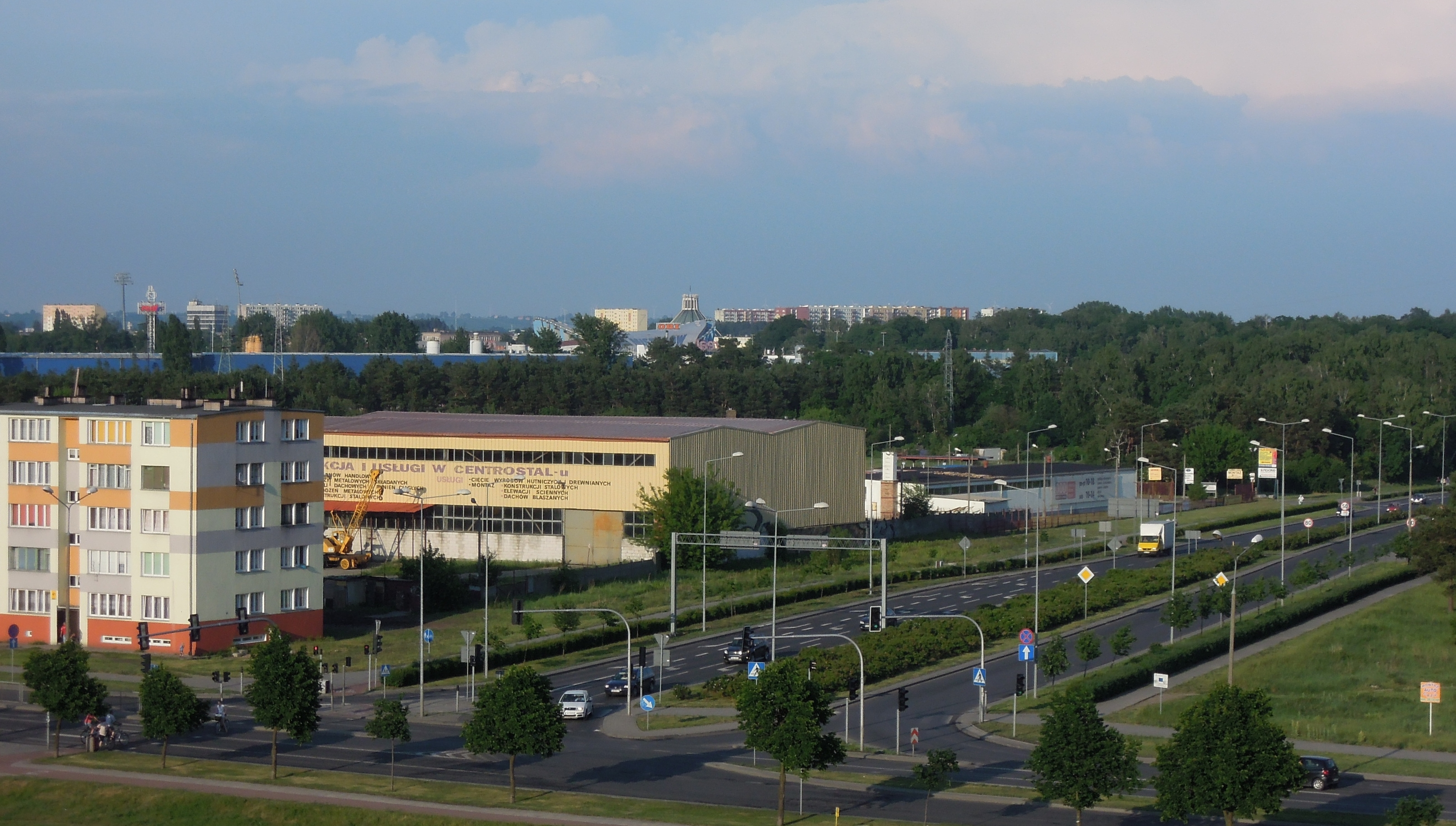 Kruszyńska Street & Queen Jadwiga Avenue, Włocławek, Poland